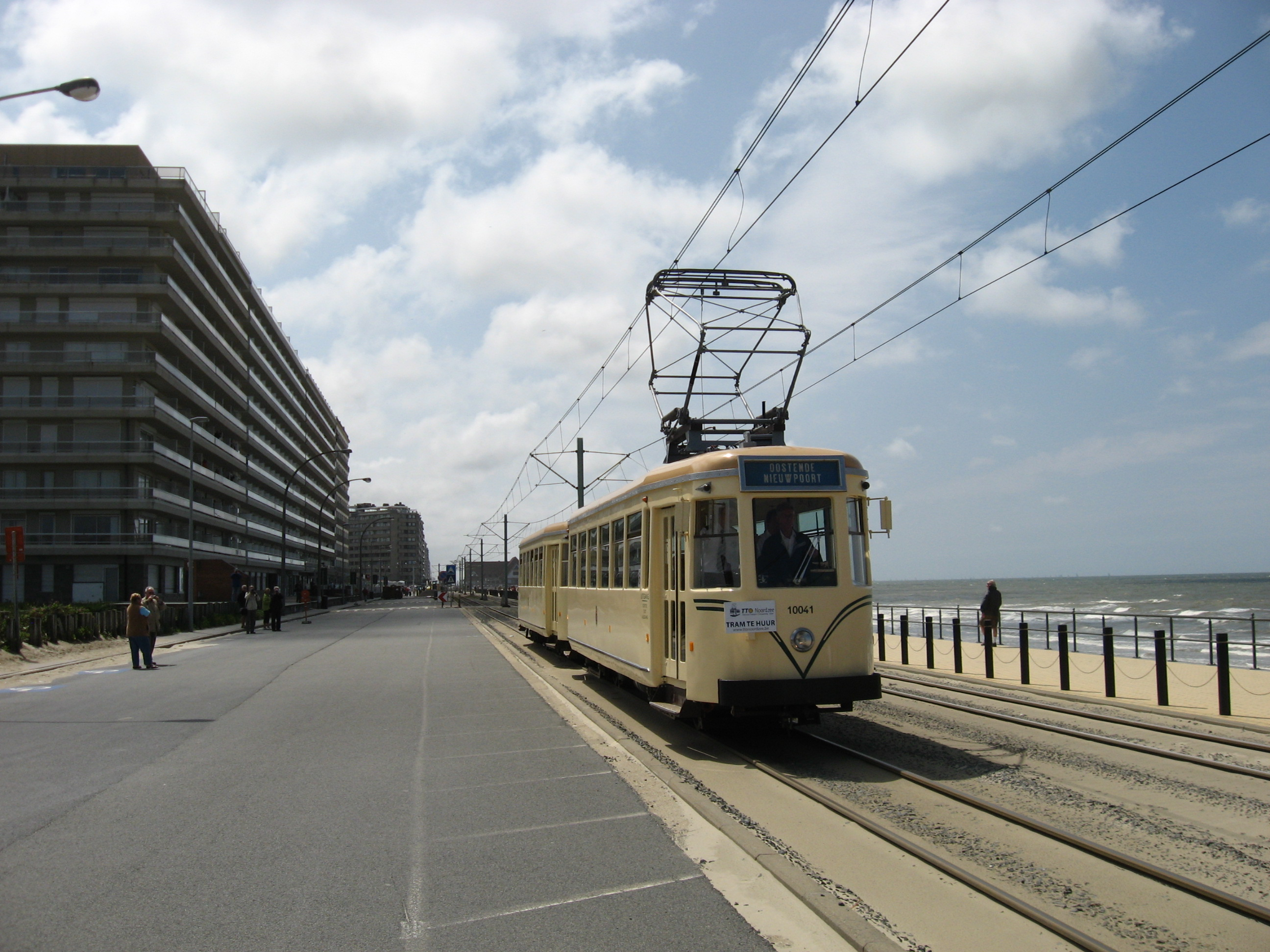 Tramparade 125 years of vicinal railways. Type SO tram and coache. This is the sixt tram of the parade. This ia a typical tram used on the coast. Door only on one side and moustache lines.